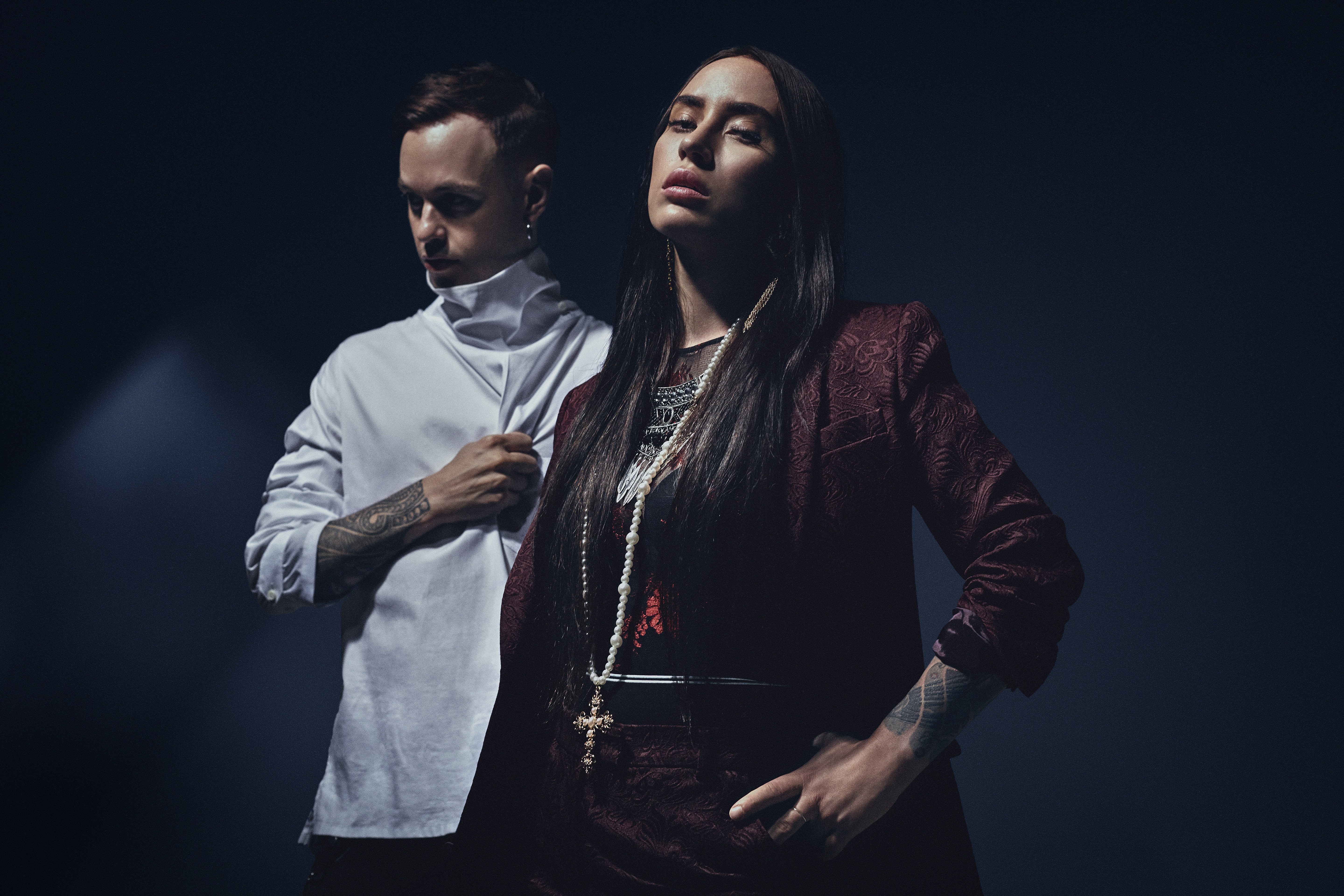 HIGHASAKITE 2018 by Jørgen Nordby